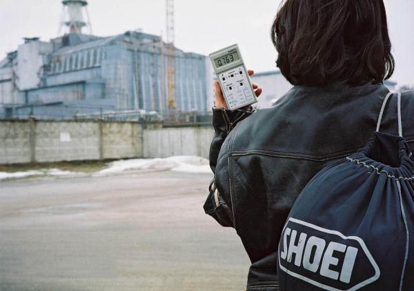 Image of Chernobyl nuclear power plant, including Geiger counter reading of present radioactive level showing 0.763 milliroentgens per hour